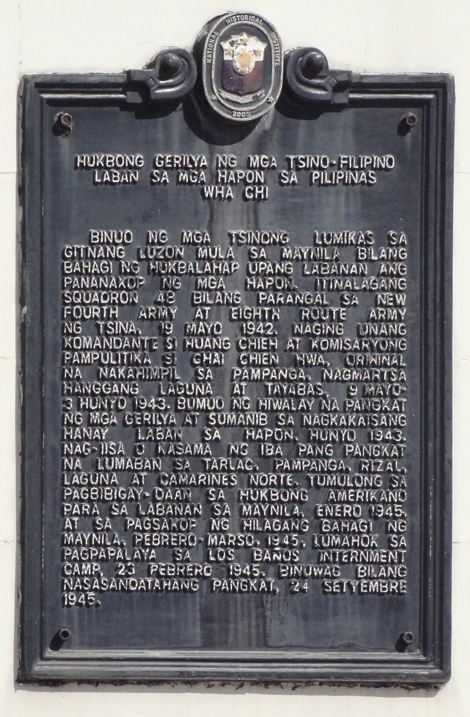 Hukbong Gerilya ng mga Tsino-Filipino Laban sa mga Hapon sa Pilipinas Wha Chi NHCP Historical Marker